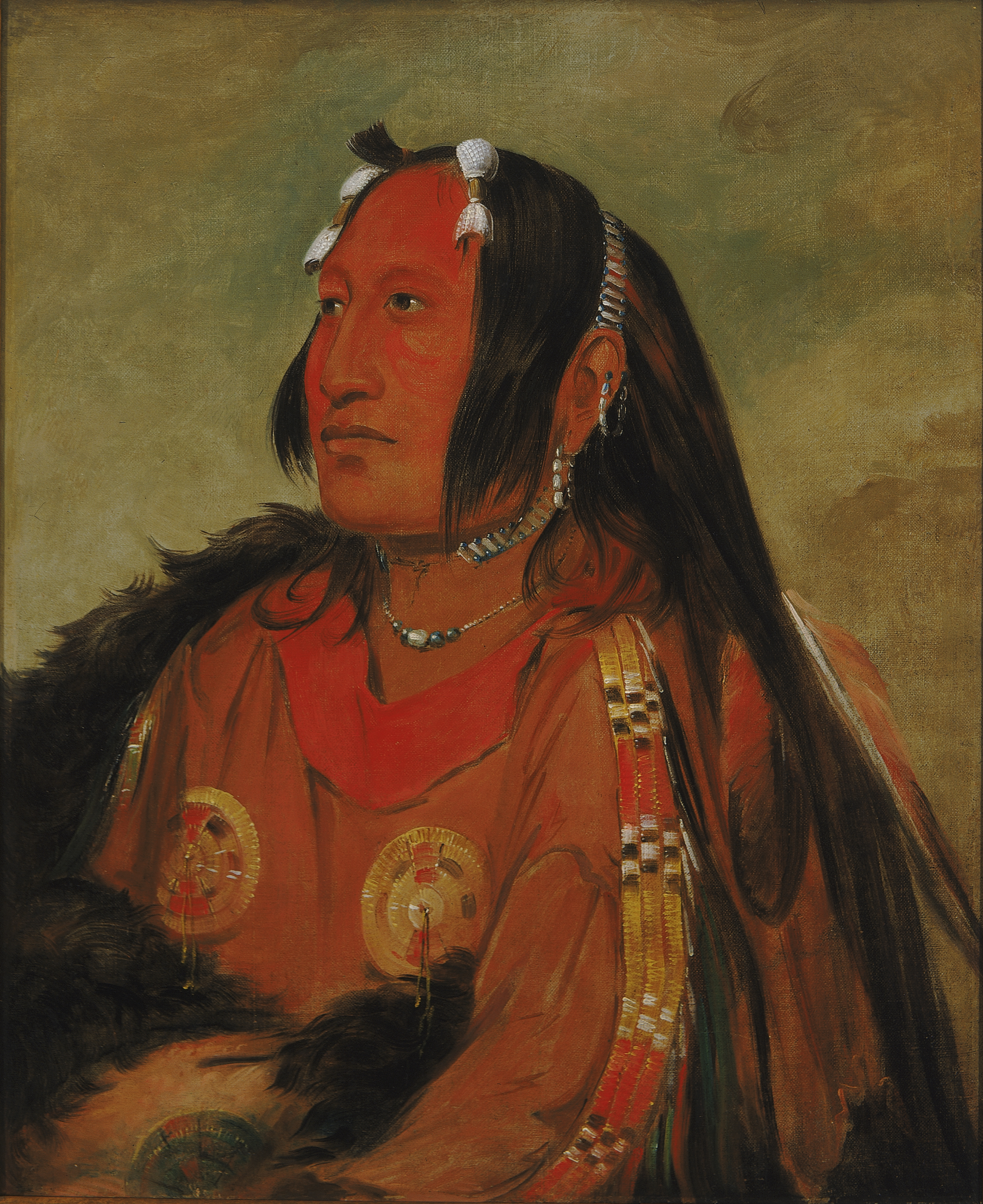 Catlin painted this subject at three different points in his life: young (this painting), then before and after the subject visited Washington, D.C. The warrior was ostracized by his tribe after he returned from Washington.